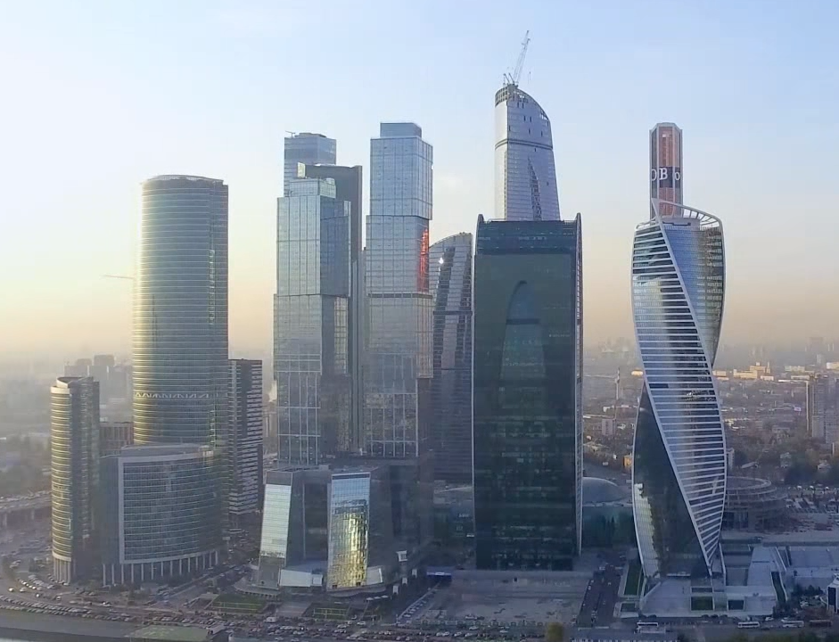 Деловой центр Москва-сити в декабре 2015